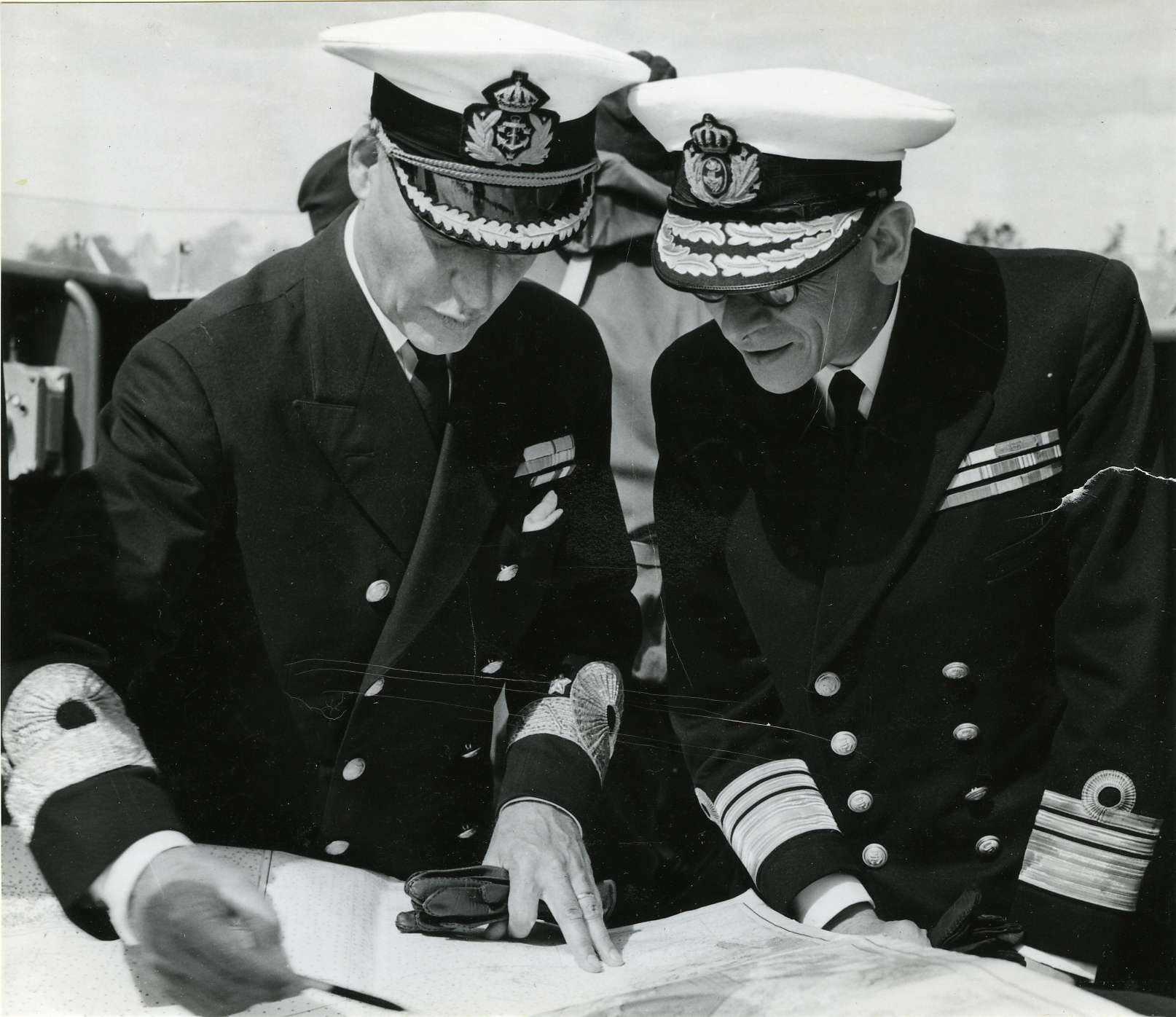 The chief of the Swedish Navy (to the left), Vice Admiral Stig H:son Ericsson (1897-1985), togheter with his Danish counterpart (to the right), Vice Admiral Hans Alfred Nyholm (1898-1964), onboard the Swedish torpedo boat HSwMS Aldebaran (T 107).